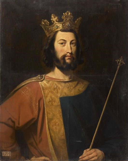 Portraits of Kings of France is a serie of portraits commissioned between 1837 and 1838 by Louis Philippe I and painted by various artists for the Musée historique de Versailles.